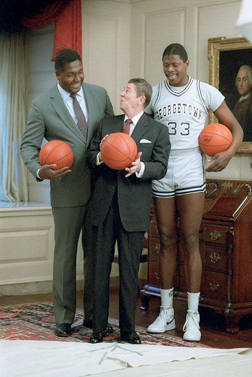 President Reagan with Patrick Ewing and John Thompson posing for cover of Sports Illustrated in the White House map room. 11/12/84